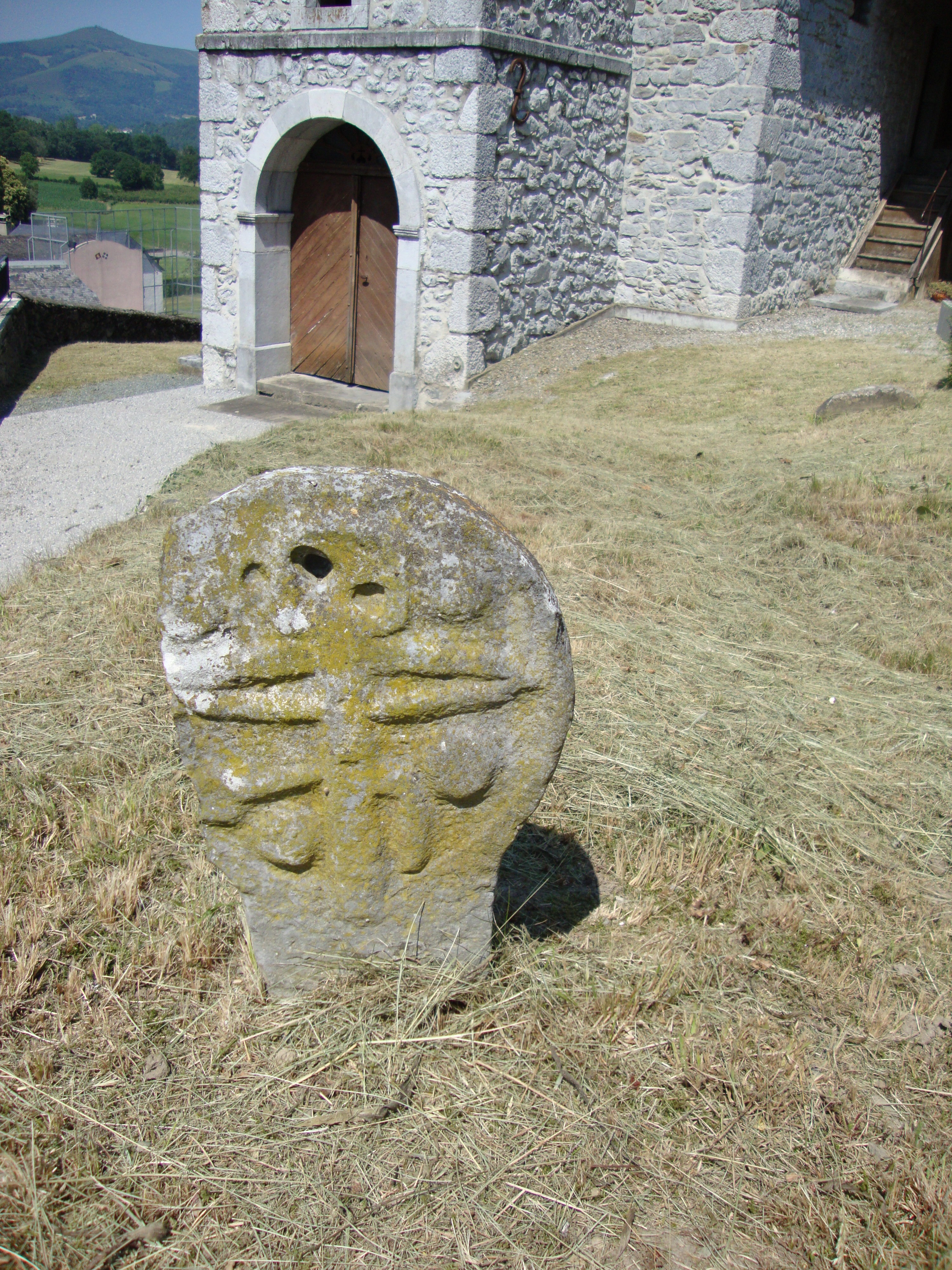 Lichans (Lichans-Sunhar, Pyr-Atl, Fr) basque stele.